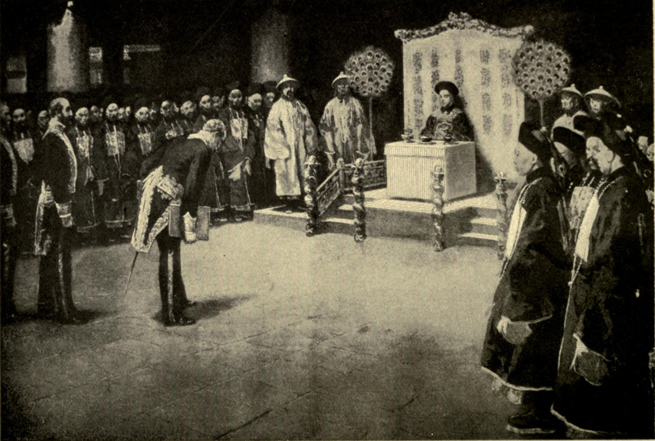 The Chinese emperor receiving the diplomatic corps.